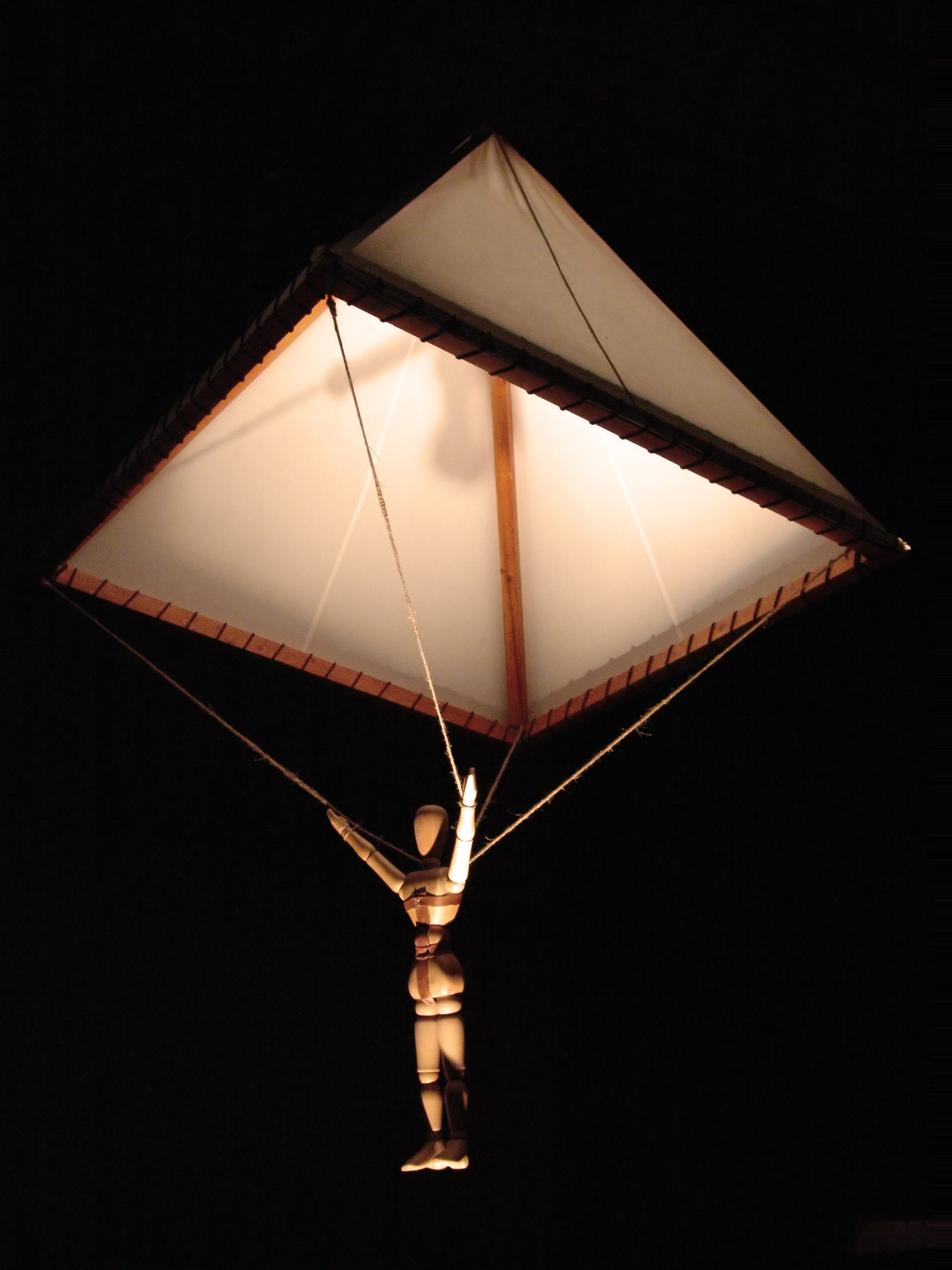 Leonardo da Vinci sketched a parachute while he was living in Milan around 1480-1483.